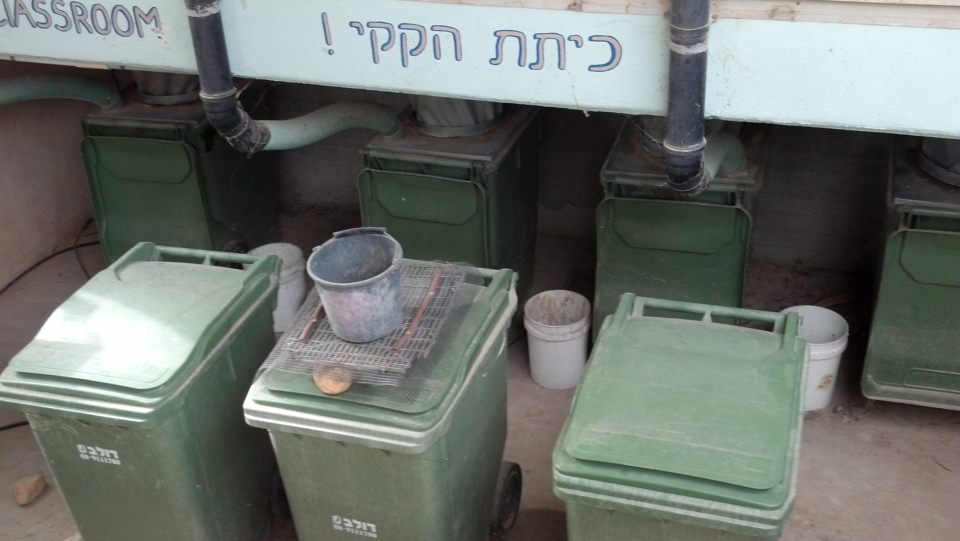 Compost generated in an ecological lavatory in the recycling centre of Kibbutz Lotan, Israel